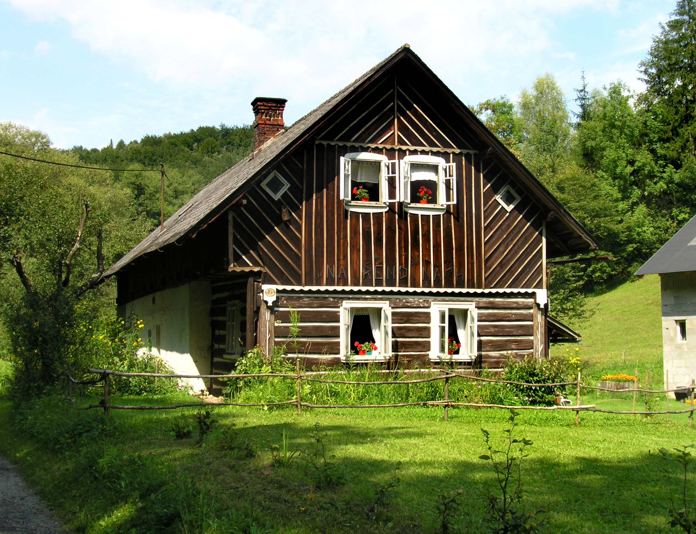 Podloučky, part of Klokočí village by Turnov, Czech Republic